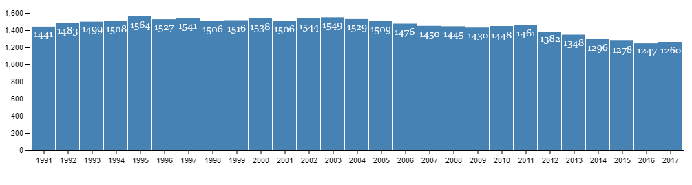 Population of Greenlandic town Nanortalik in 1991-2017